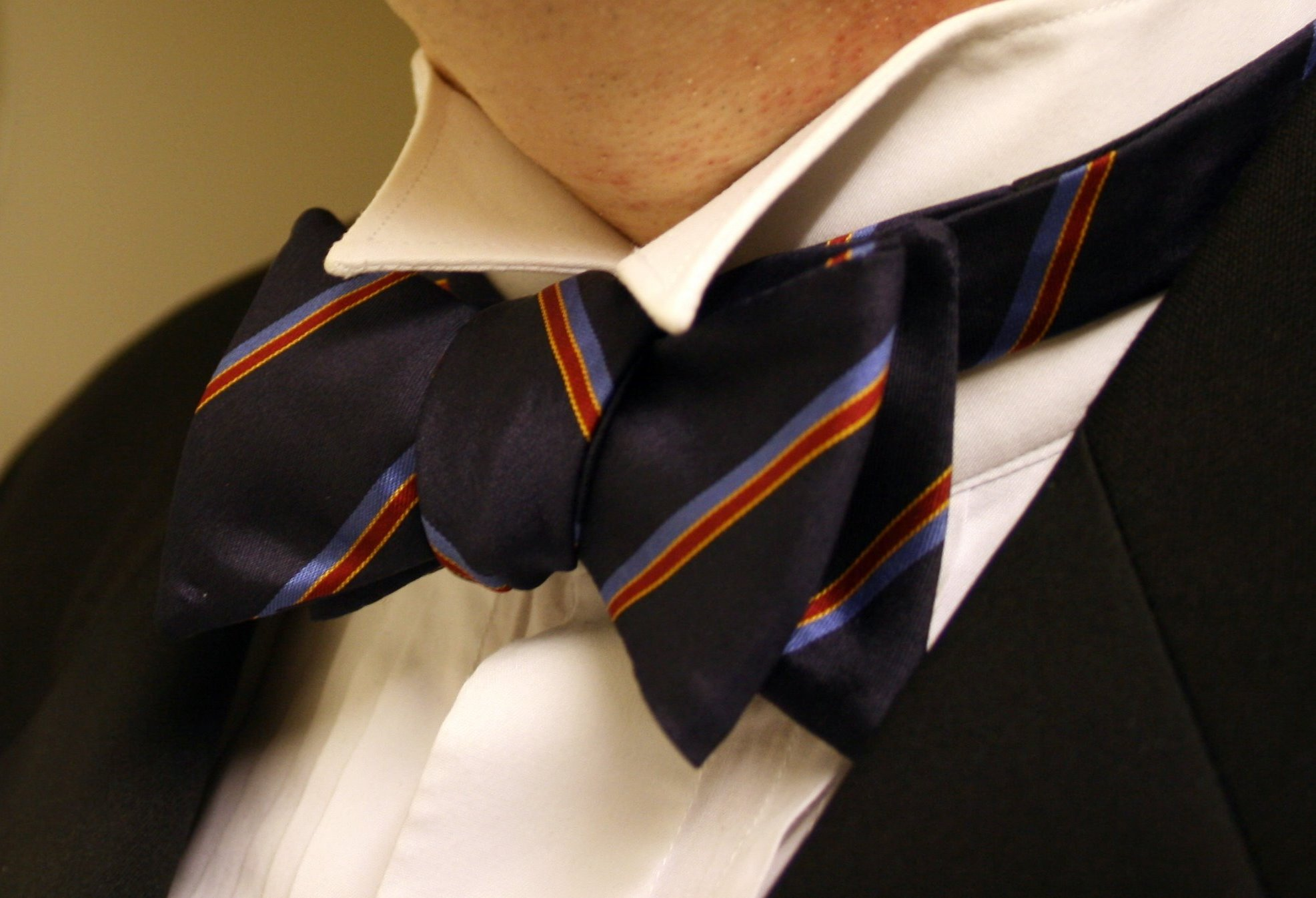 A striped bow tie.